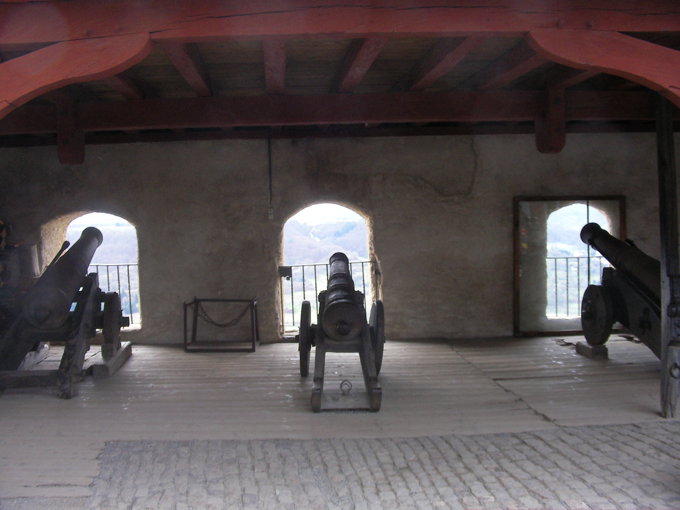 Marksburg/Rhine Valley, artillery battery, Germany